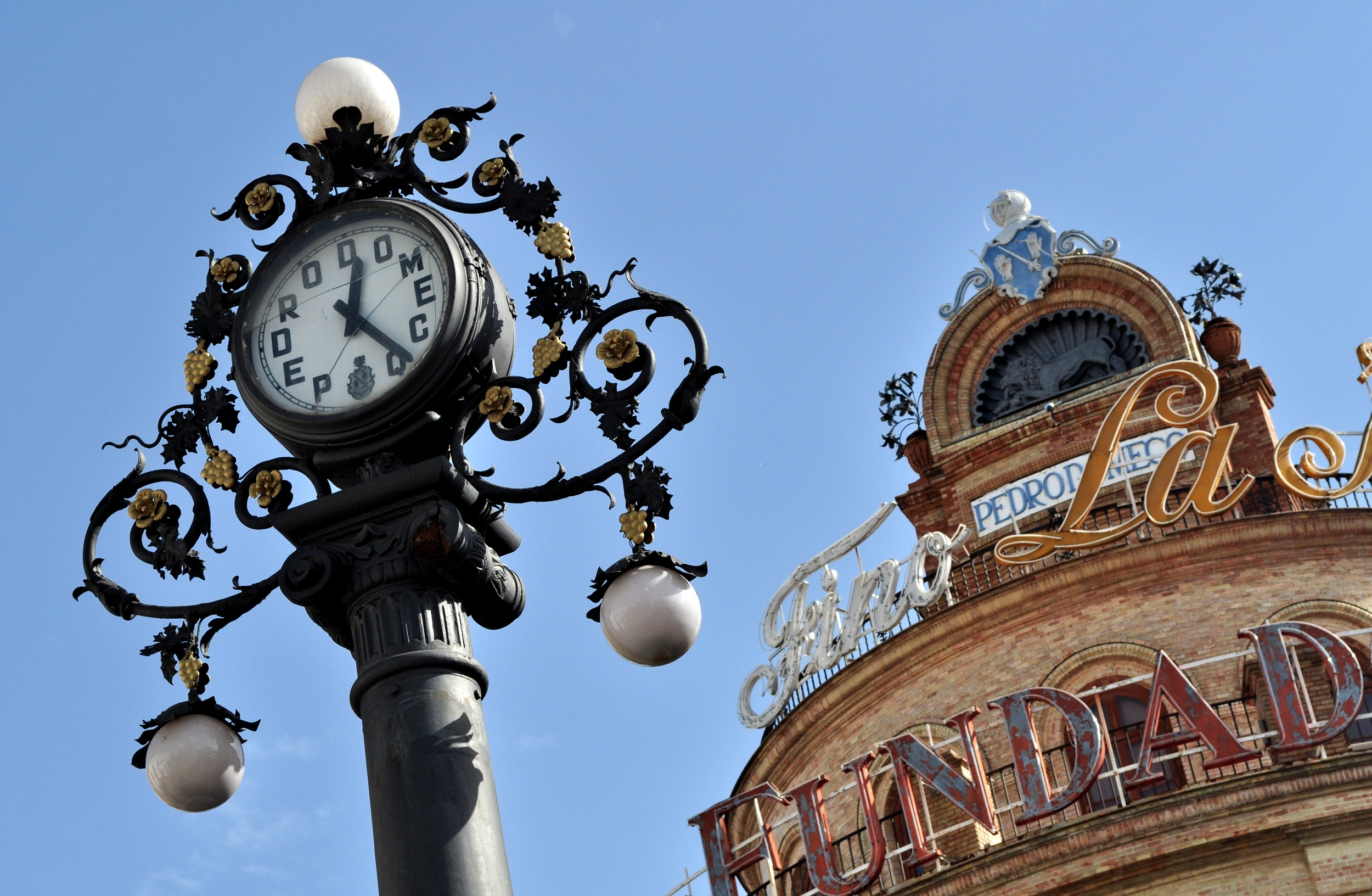 Gallo Azul Clock, Jerez